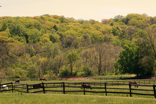 Pepper Pike Horses!